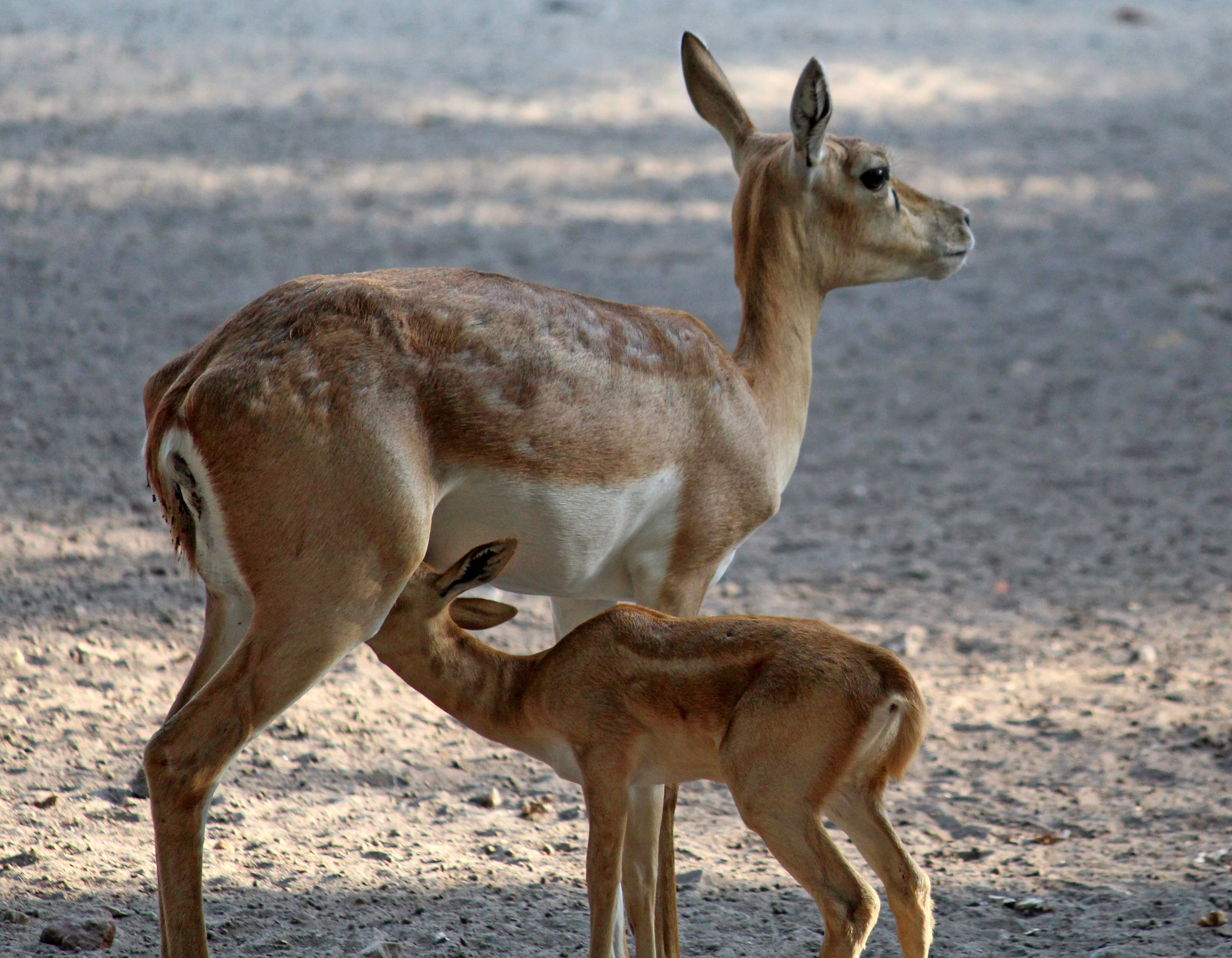 A female Blackbuck with its baby at National Zoological Park, New Delhi